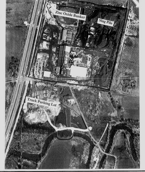 US federal government aerial photo, 1998. Chemetco's illegal waste can be seen as a silvery boomerang-shaped curve underneath the truck parking lot. This is where the secret pipe emerged. Obtained as a prosecution exhibit under US FOIA.